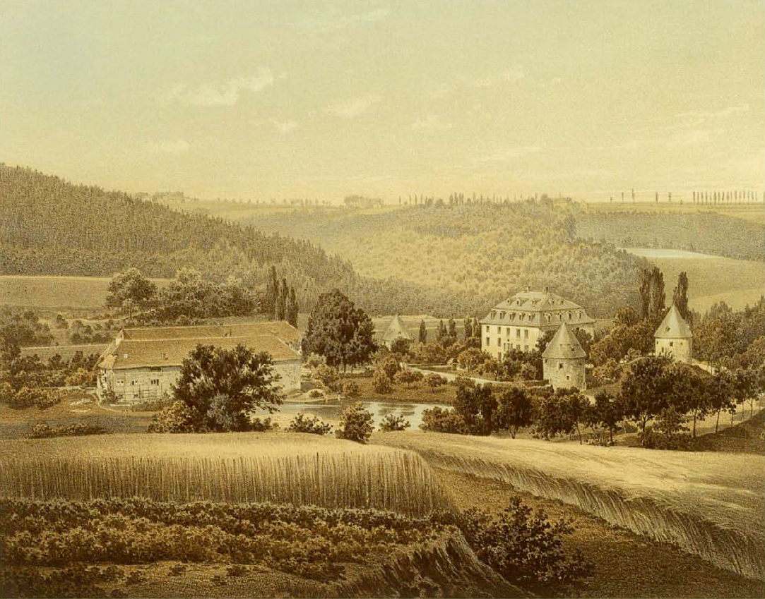 Lithography of Schloss Hardenberg in Velbert.